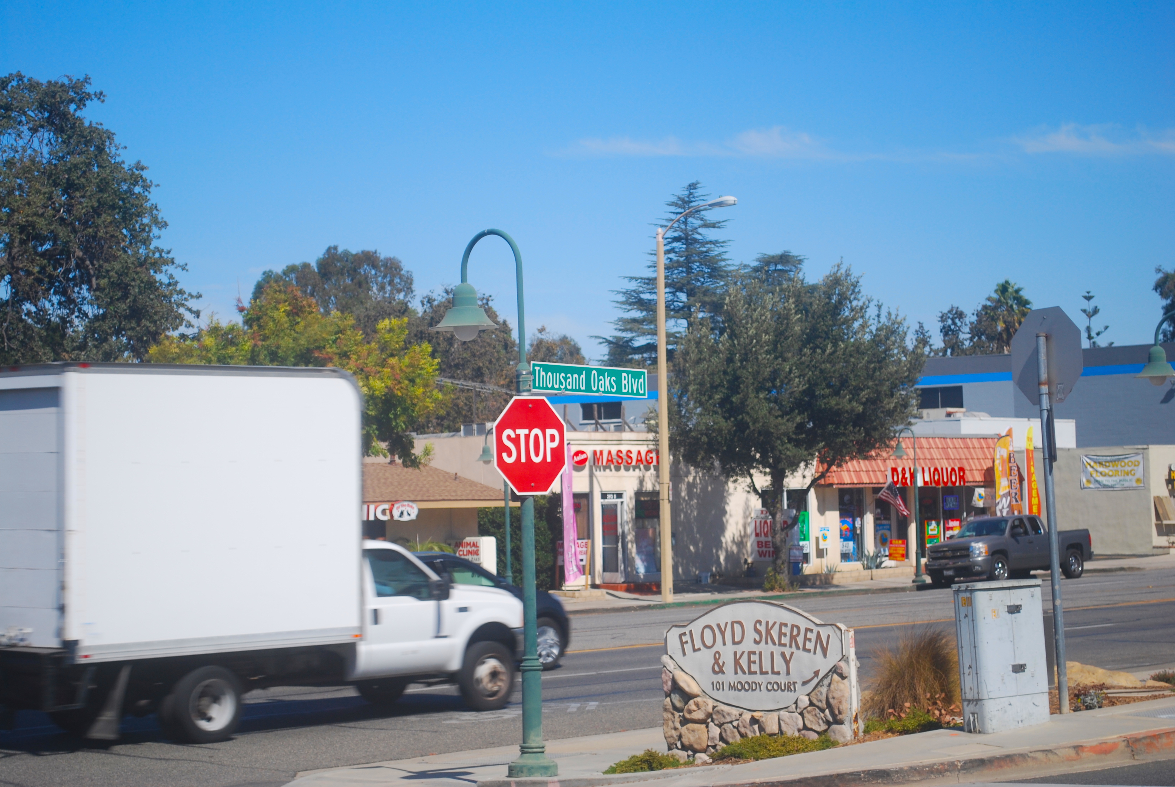 Thousand Oaks Boulevard, 2016